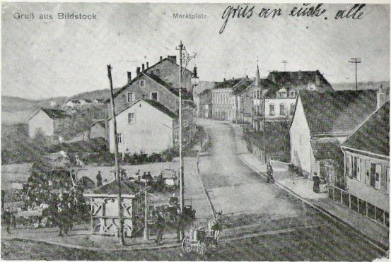 Market square in Bildstock, Saar region, ca. 1910